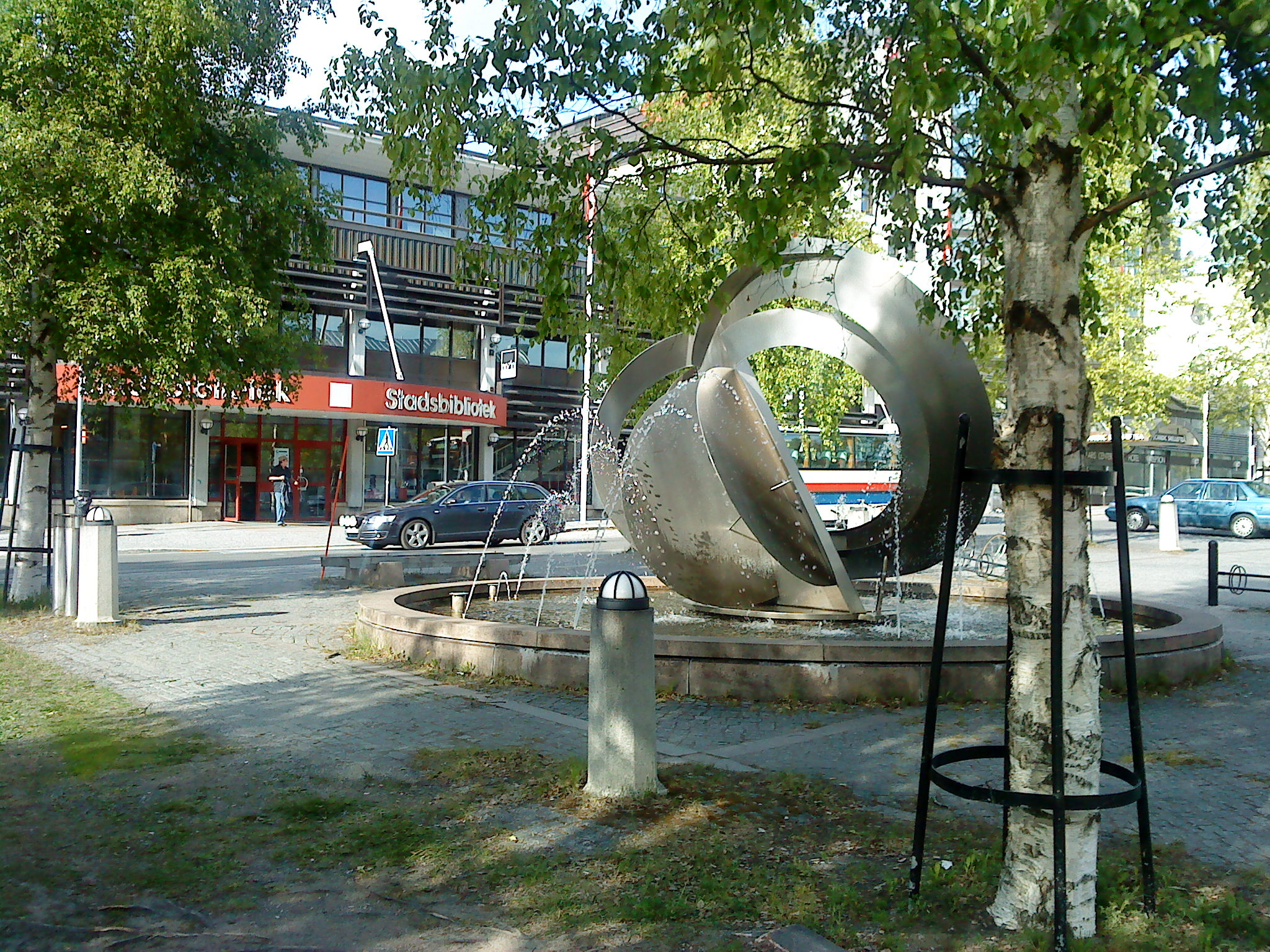 The square Viktoriaplatsen in Skellefteå.